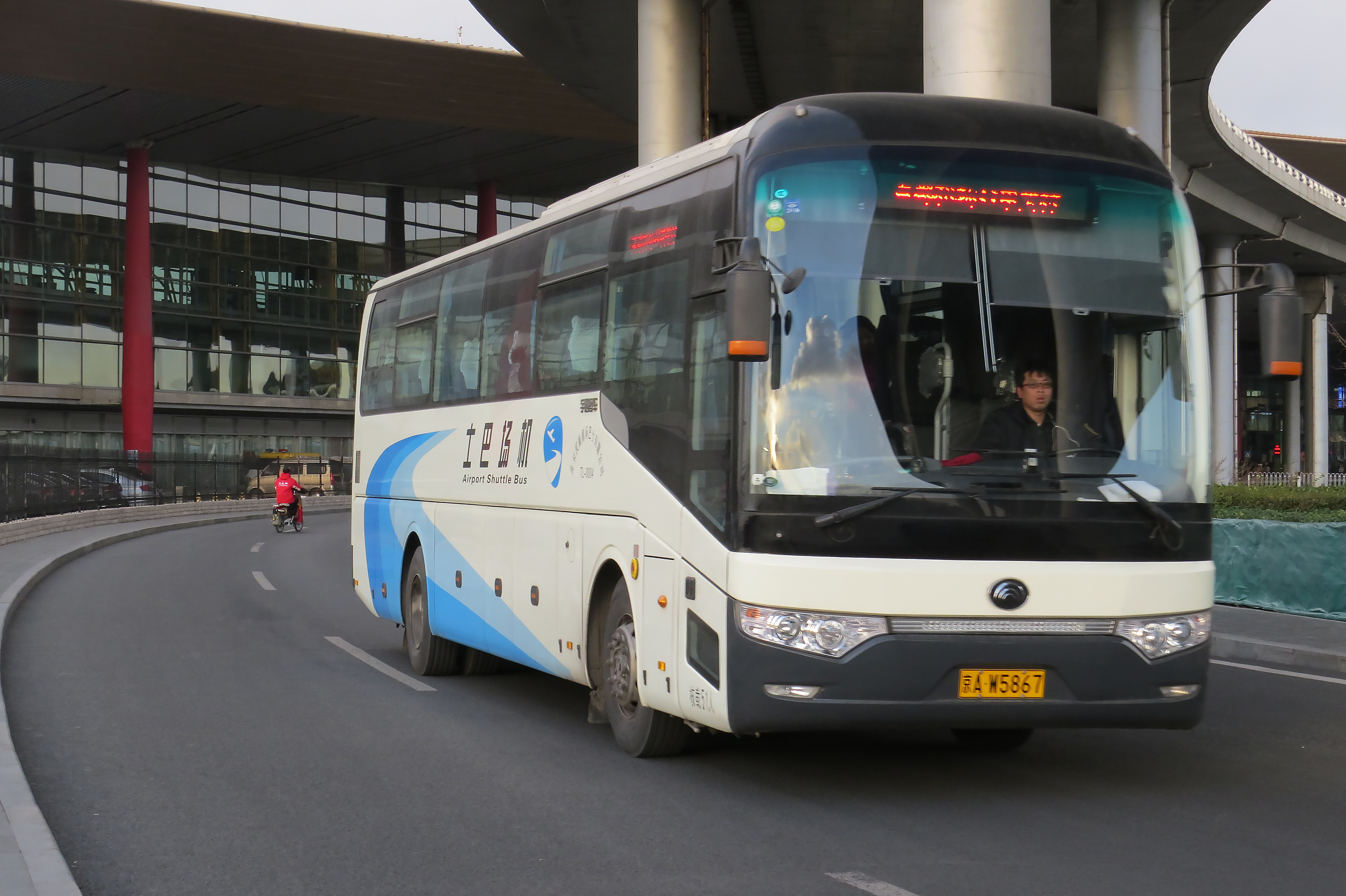 A bigger Yutong to Zhongguancun as A5.